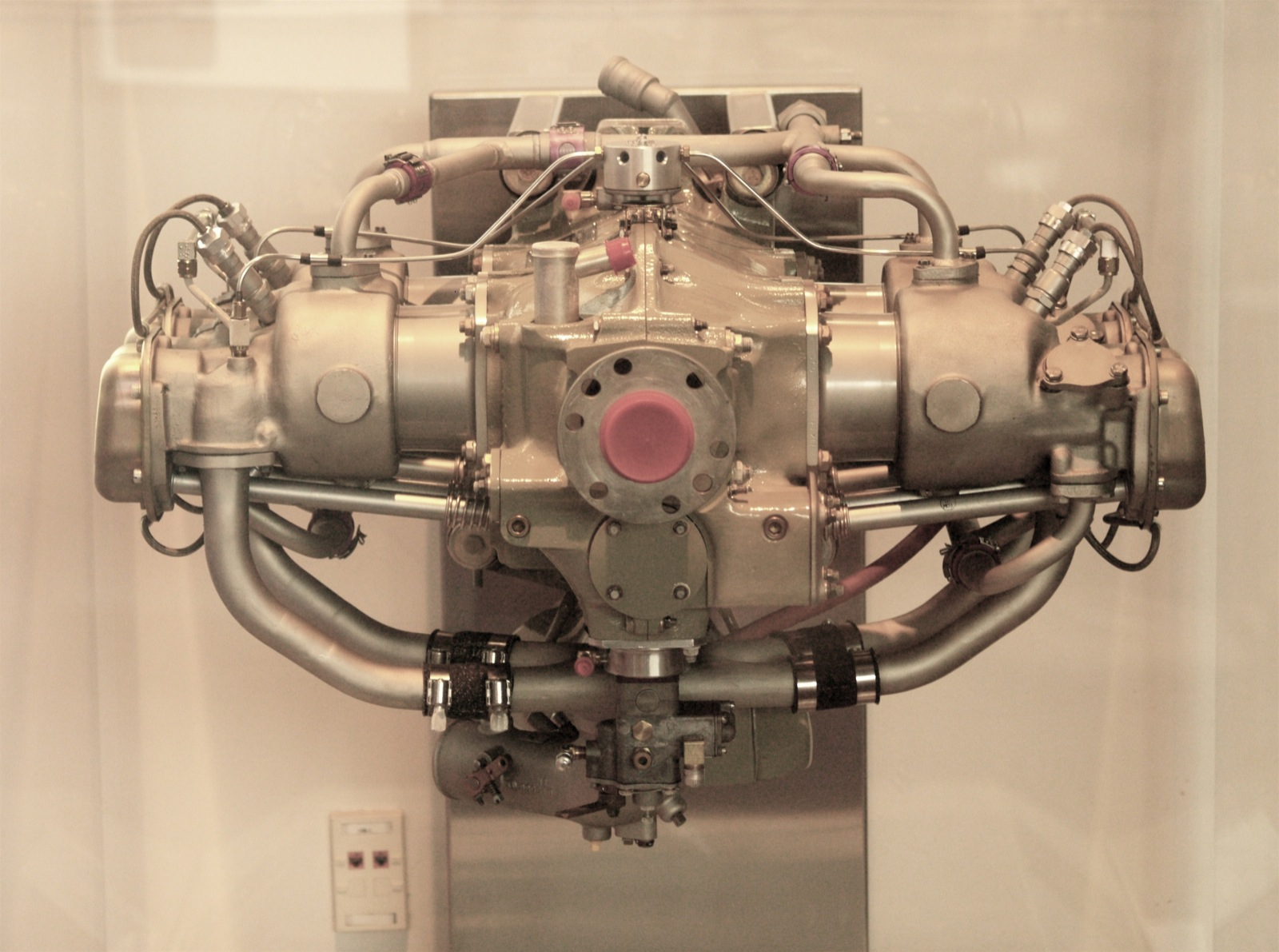 "Exact Replica" Of The Reciprocating, Four-Cylinder, Liquid-Cooled, Horizontally-Opposed, Fuel-Injected, 110 Horsepower At 2750 RPM Teledyne Continental Motors Rutan Voyager Rear Engine (Washington, DC)